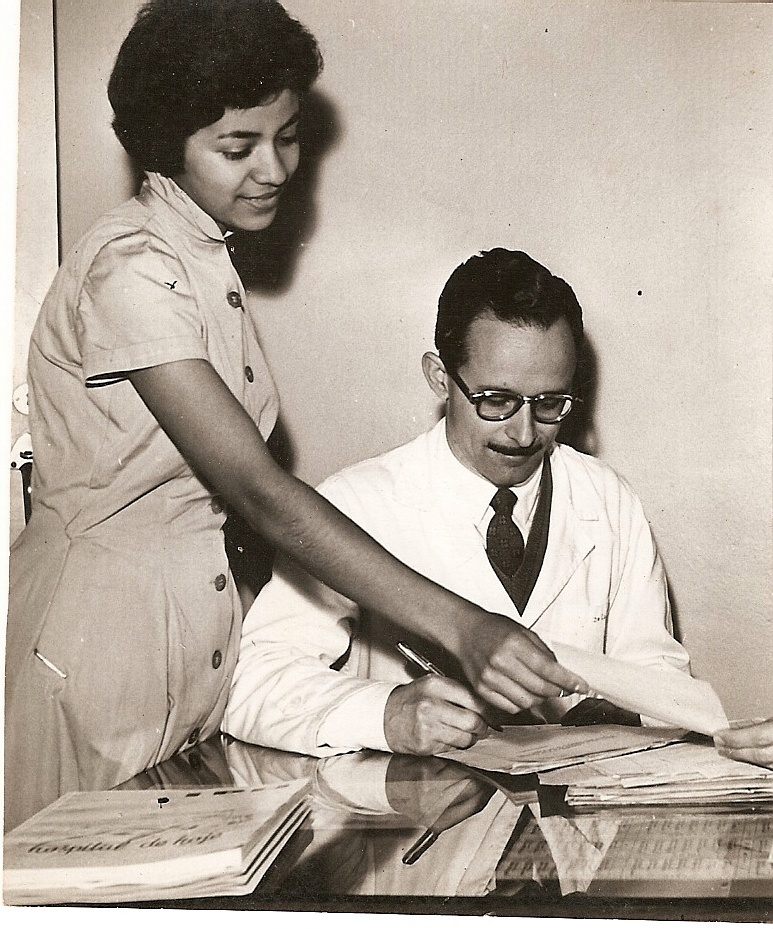 Dr. Luciano Endrizzi, ca. 1963. Released to the public domain by author Renato M.E. Sabbatini